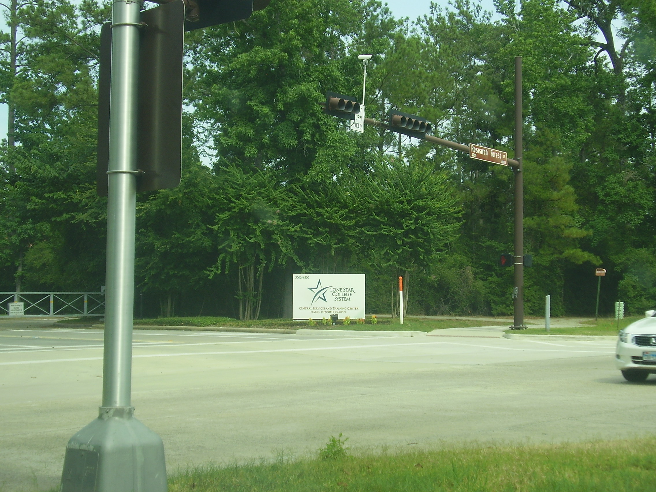 Lone Star College Central Services and Training Center HARC Mitchell Campus - Headquarters of the system - 5000 Research Forest Drive, The Woodlands, TX 77381-4356